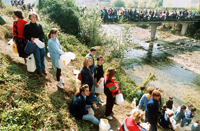 Residents of Sarajevo stand in line to get water, 1992.